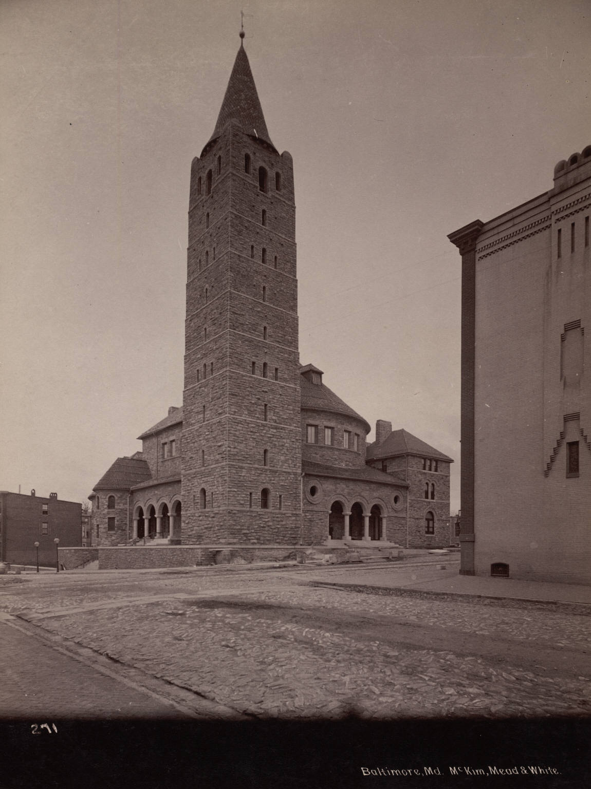 Collection: A. D. White Architectural Photographs, Cornell University Library Accession Number: 15/5/3090.00205 Title: First Methodist Episcopal Church (Lovely Lane United Methodist Church) Architect: McKim, Mead & White (1878-) Photograph date: ca. 1887-ca. 1895 Building Date: 1883-1887 Location: North and Central America: United States; Maryland, Baltimore Materials: albumen print Image: 7 3/4 x 5 7/8 in.; 19.685 x 14.9225 cm Style: Romanesque Revival Provenance: Transfer from the College of Architecture, Art and Planning Persistent URI: There are no known U.S. copyright restrictions on this image. The digital file is owned by the Cornell University Library which is making it freely available with the request that, when possible, the Library be credited as its source. We had some help with the geocoding from Web Services by Yahoo!